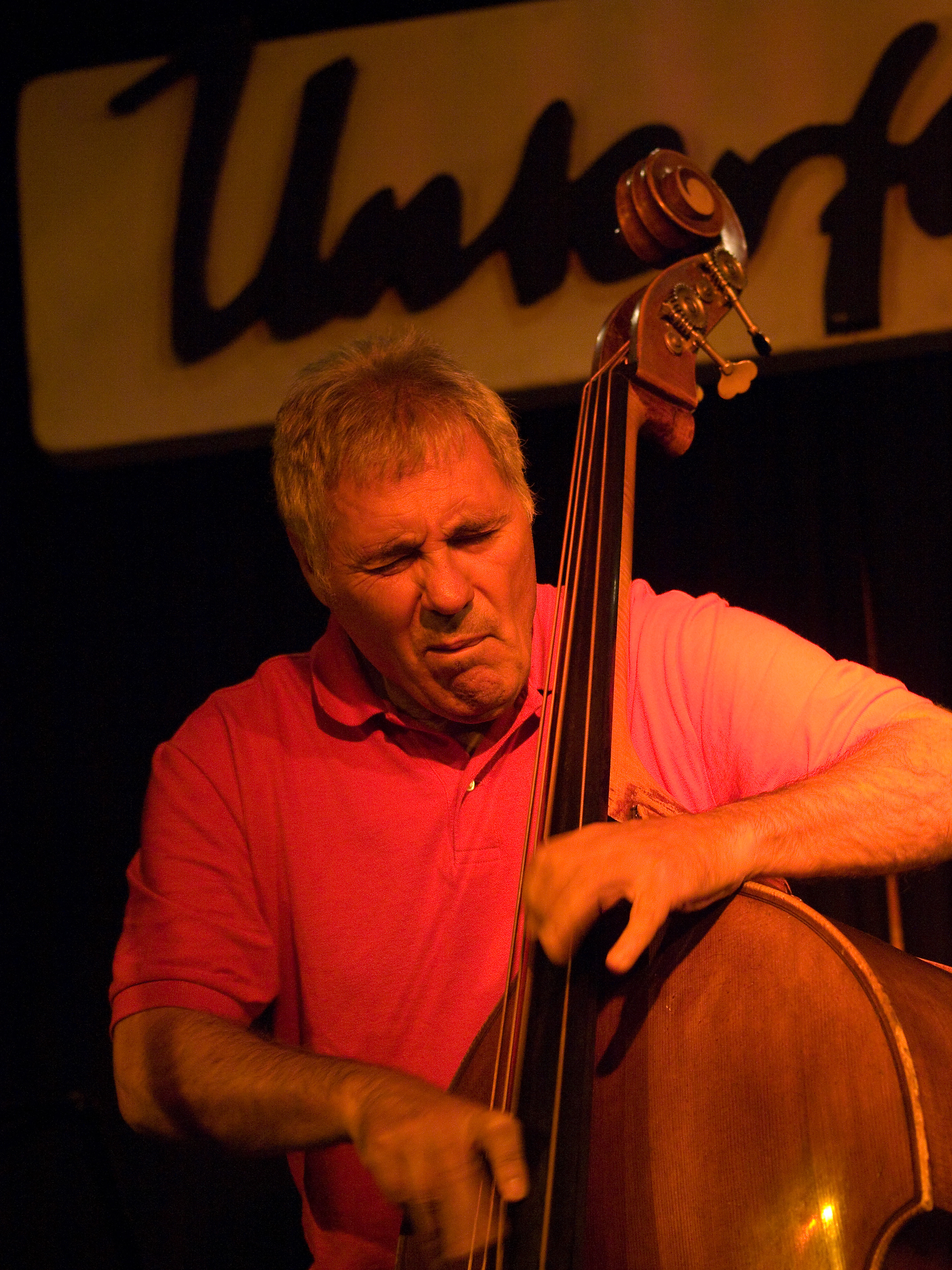 Peter Bockius, Jazz bassist; Picture taken in Jazz Club Unterfahrt, Munich/Bavaria